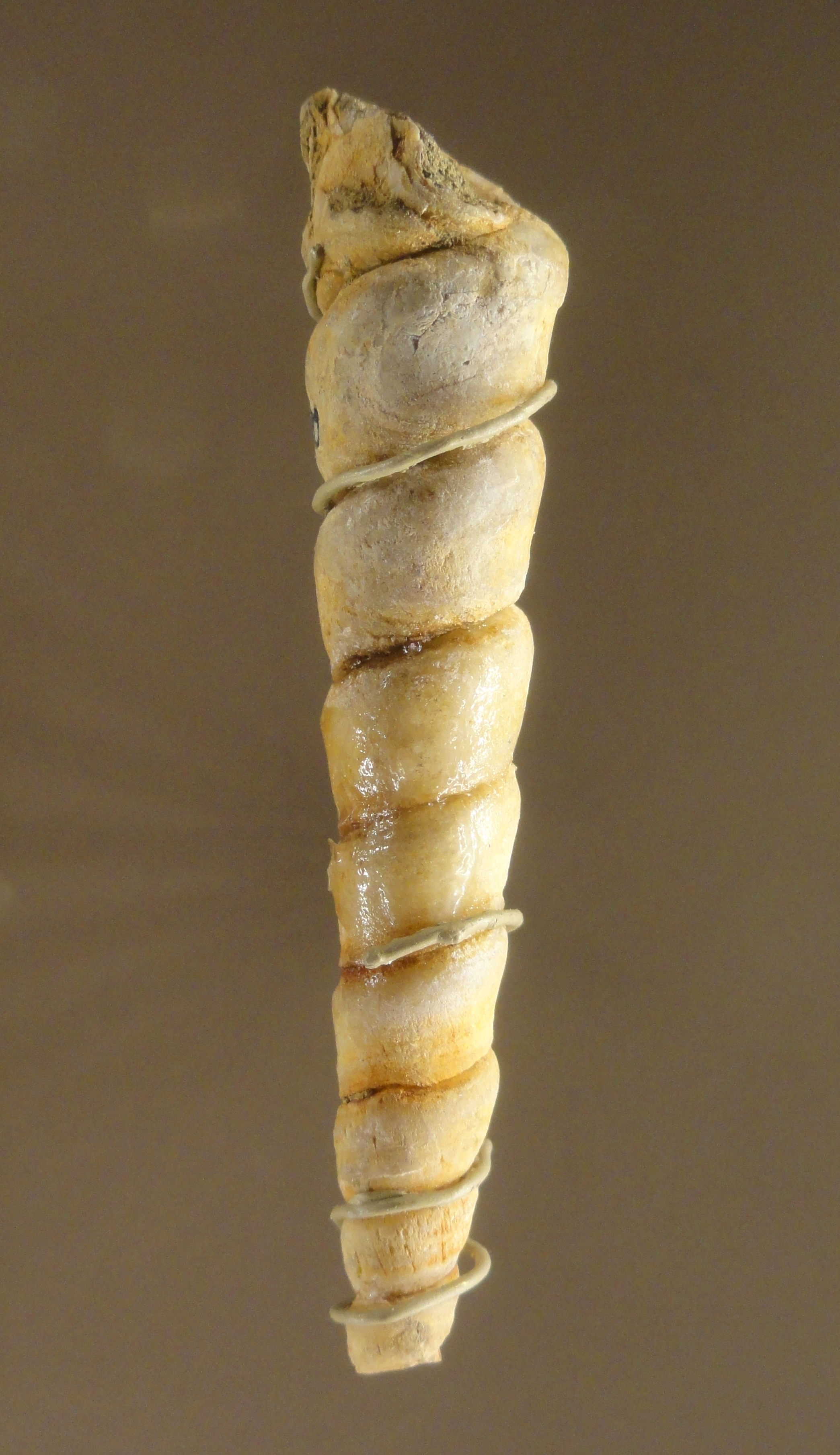 Exhibit in the Natural History Museum of Utah, Salt Lake City, Utah, USA. This item is old enough so that it is in the public domain.